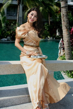 Miss Korea 2007 - Eun-Ju Cho in Miss World 2007, Sanya, China